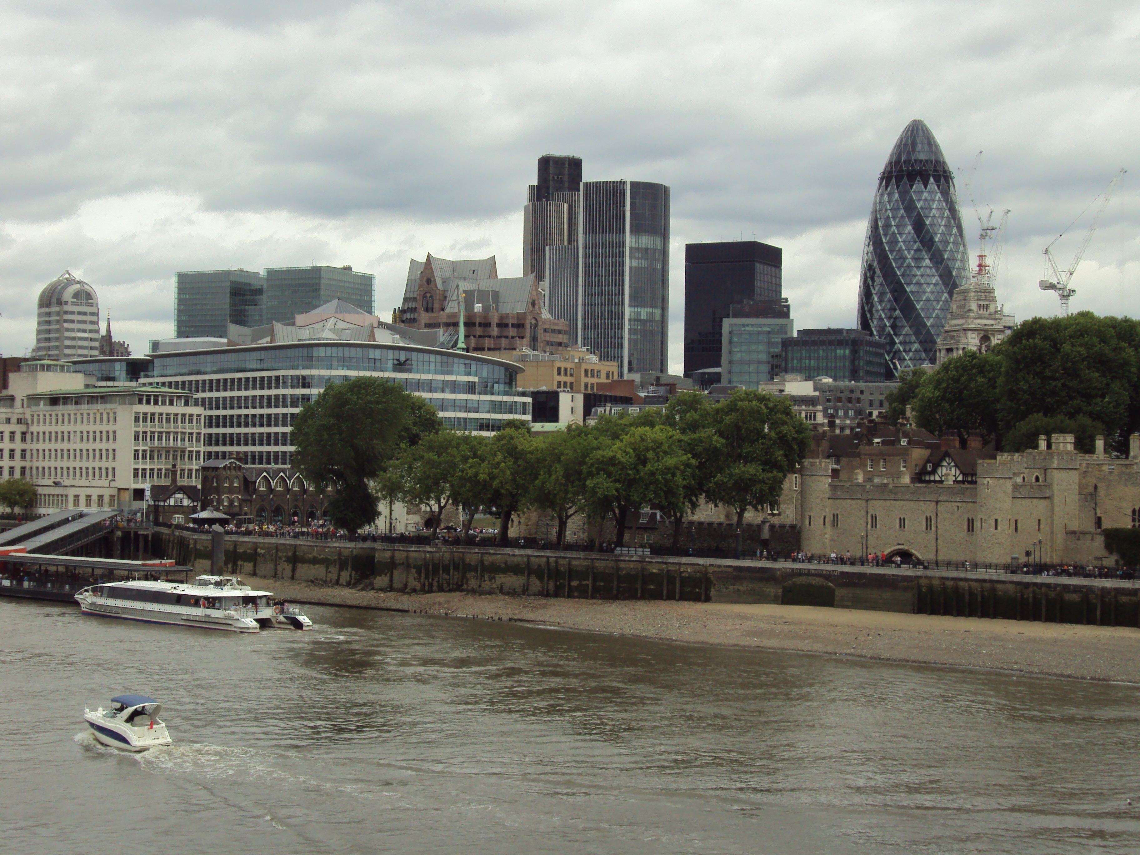 Part of skyline of London, north of the Thames as seen from Tower Bridge.